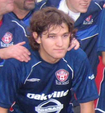 Igor Prostran in 2005 with Oakville Blue Devils.